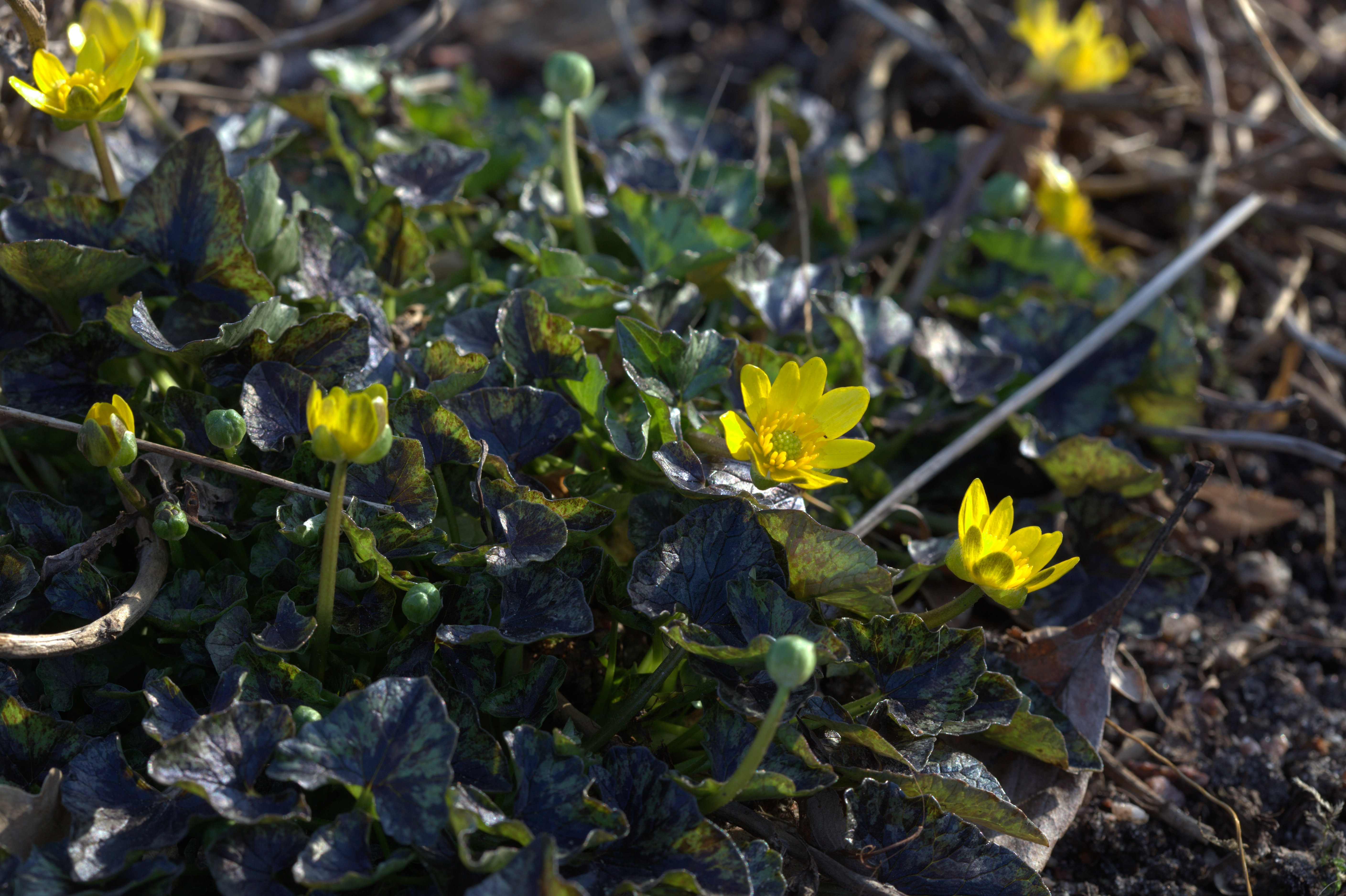 Photo taken at Gothenburg botanical garden. Specimen id: 2009-1873 p G Plant collected in 2009 from a garden in Säve.